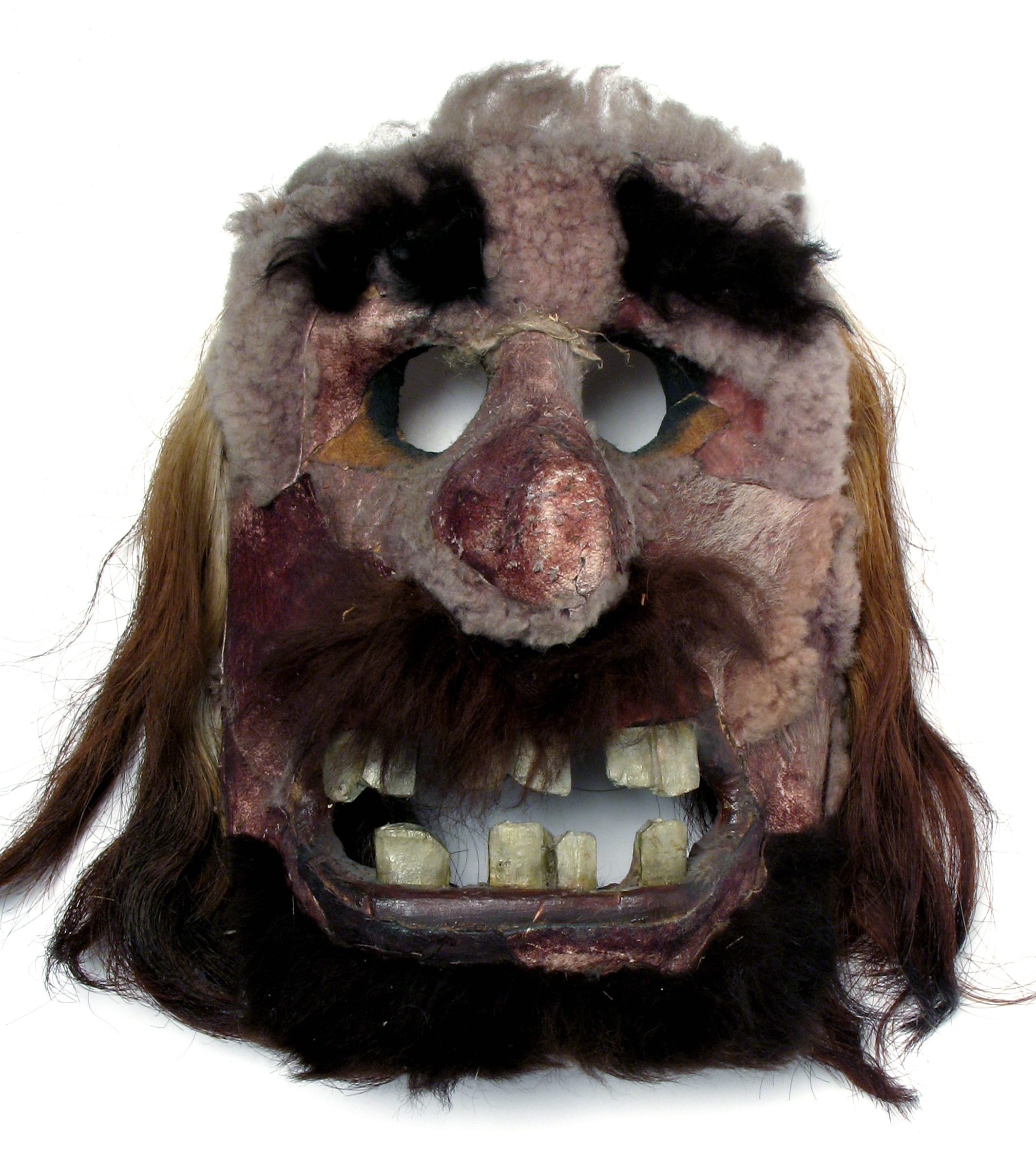 The Mask of Sorcerer (1985); author Józef Hulka; The collection of The State Ethnographic Museum in Warsaw. PME 46579